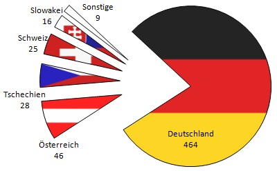 ezb (= electronical journal library)